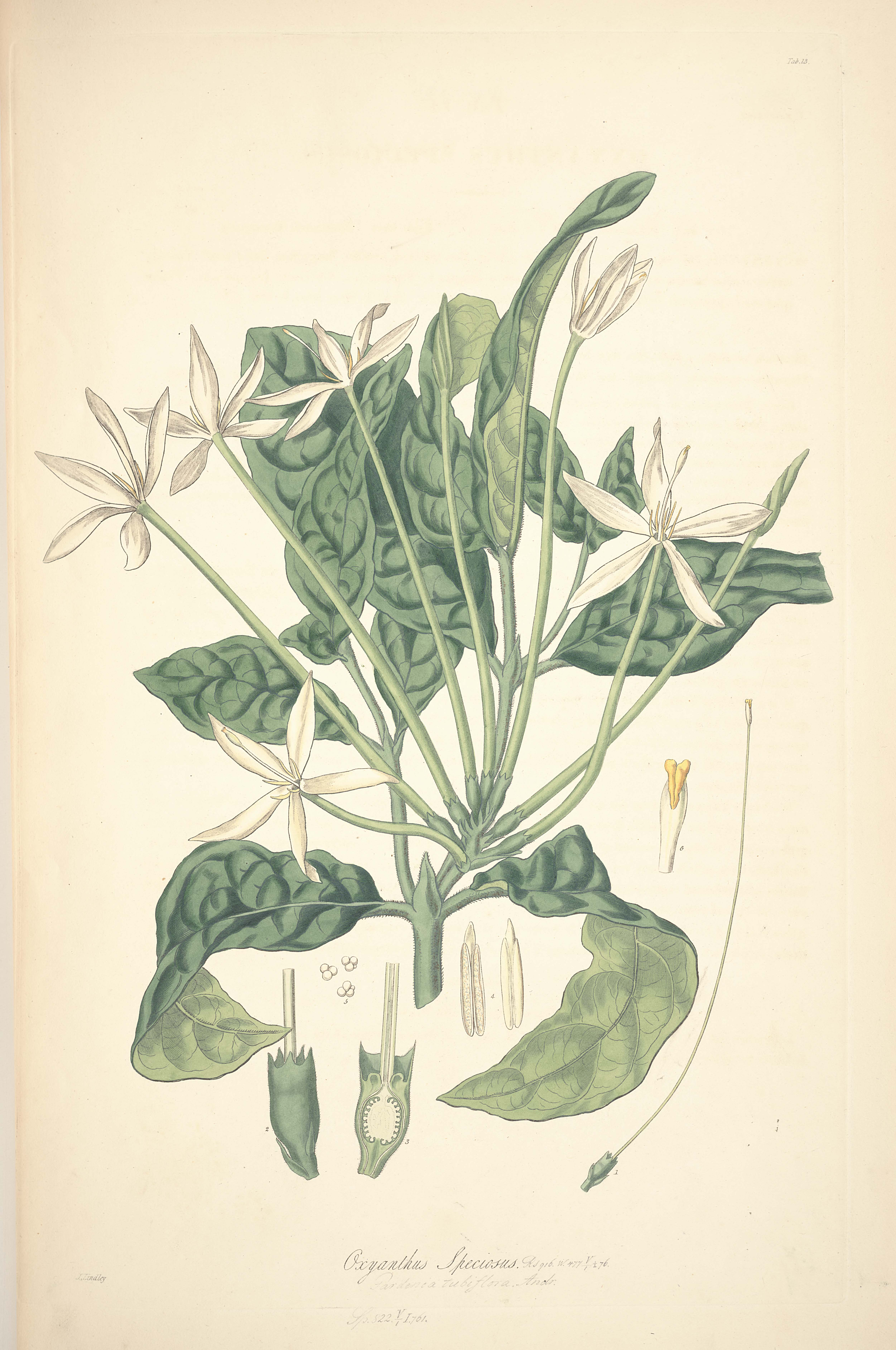 Illustration from John Lindley's "Collectanea botanica or, figures and botanical illustrations of rare and curious exotic plants". Please note that Oxyanthus speciosus W.T.Aiton, nom. illeg, non DC. and Gardenia tubiflora Andrews are synonymous with Oxyanthus tubiflorus (see WCSP).